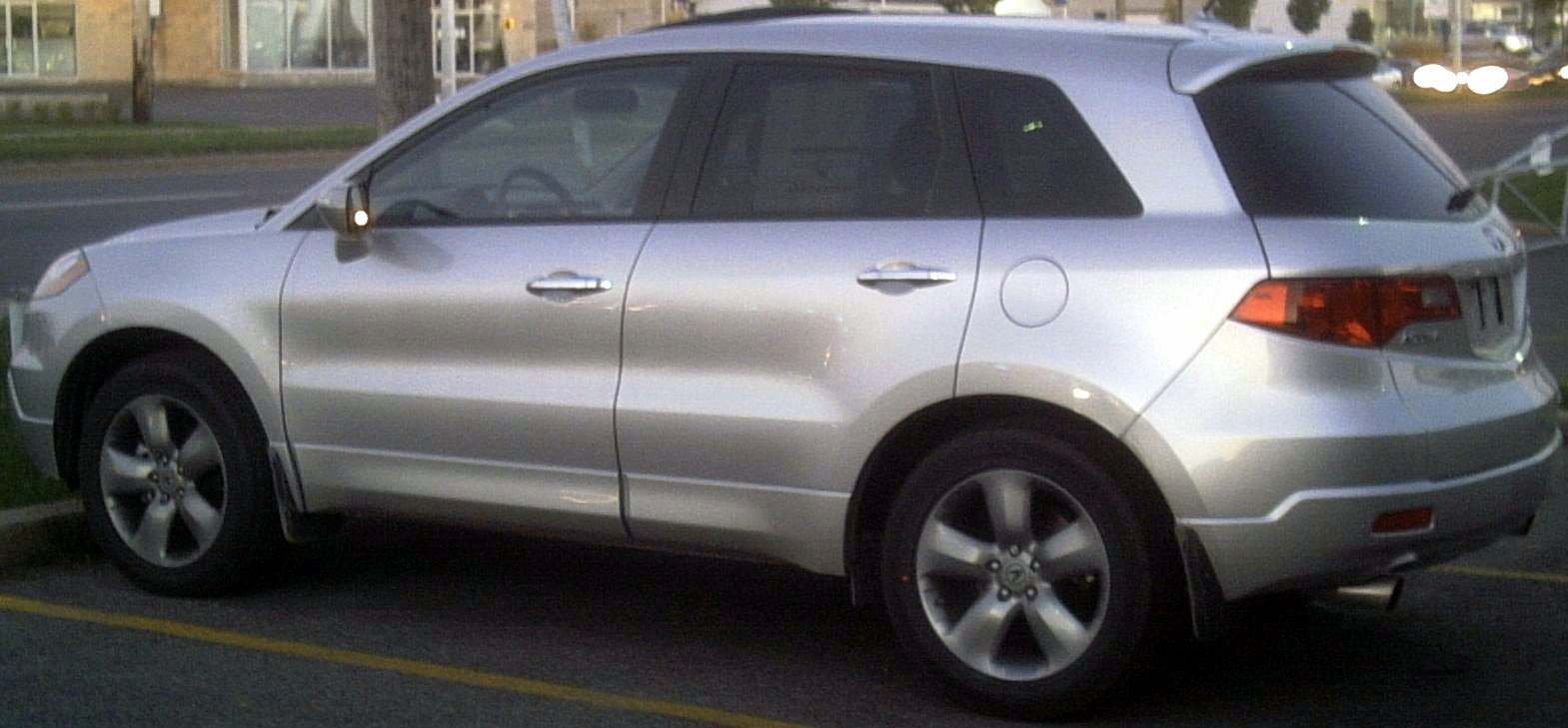 2007 Acura RDX photographed in Montreal, Quebec, Canada.